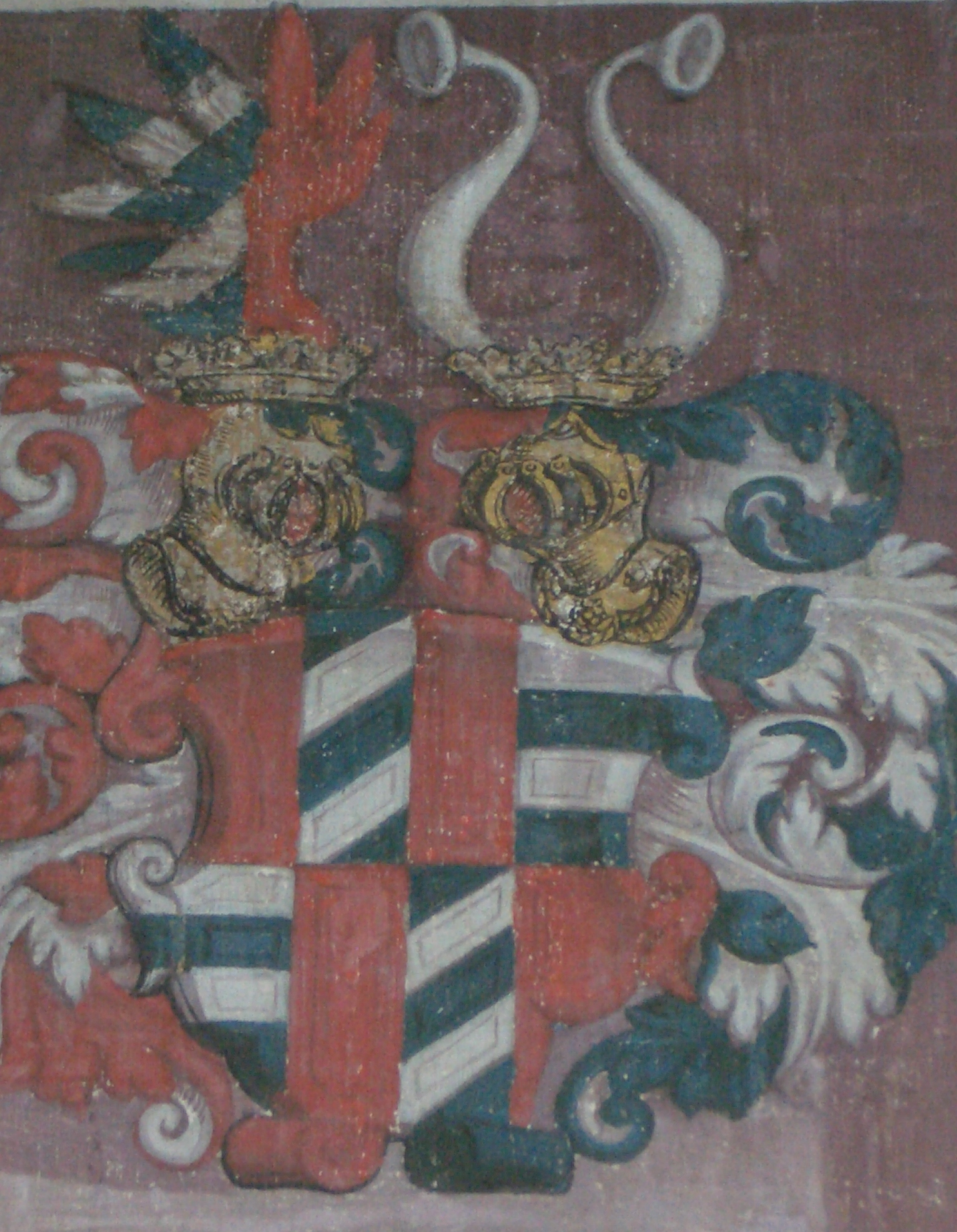 Coat of arms of Von Rain and Von Graben (first half of the 16th century)